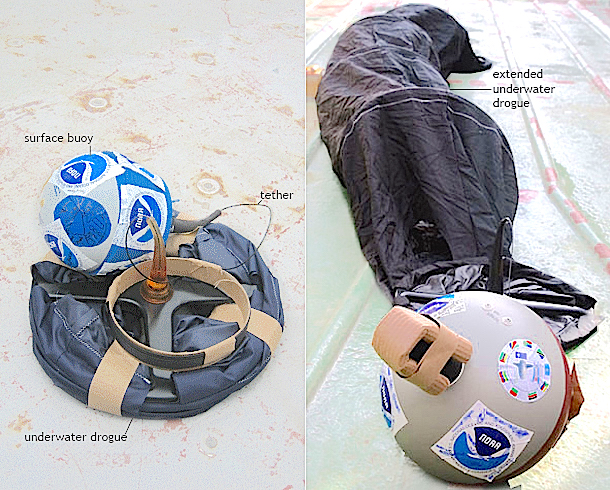 From the source: "A drifter neatly compressed for deployment (left) and with the nylon drogue fully extended (right), as it will be in the water once the cardboard wraps dissolve. Photos courtesy NOAA Atlantic Oceanographic and Meteorological Laboratory."